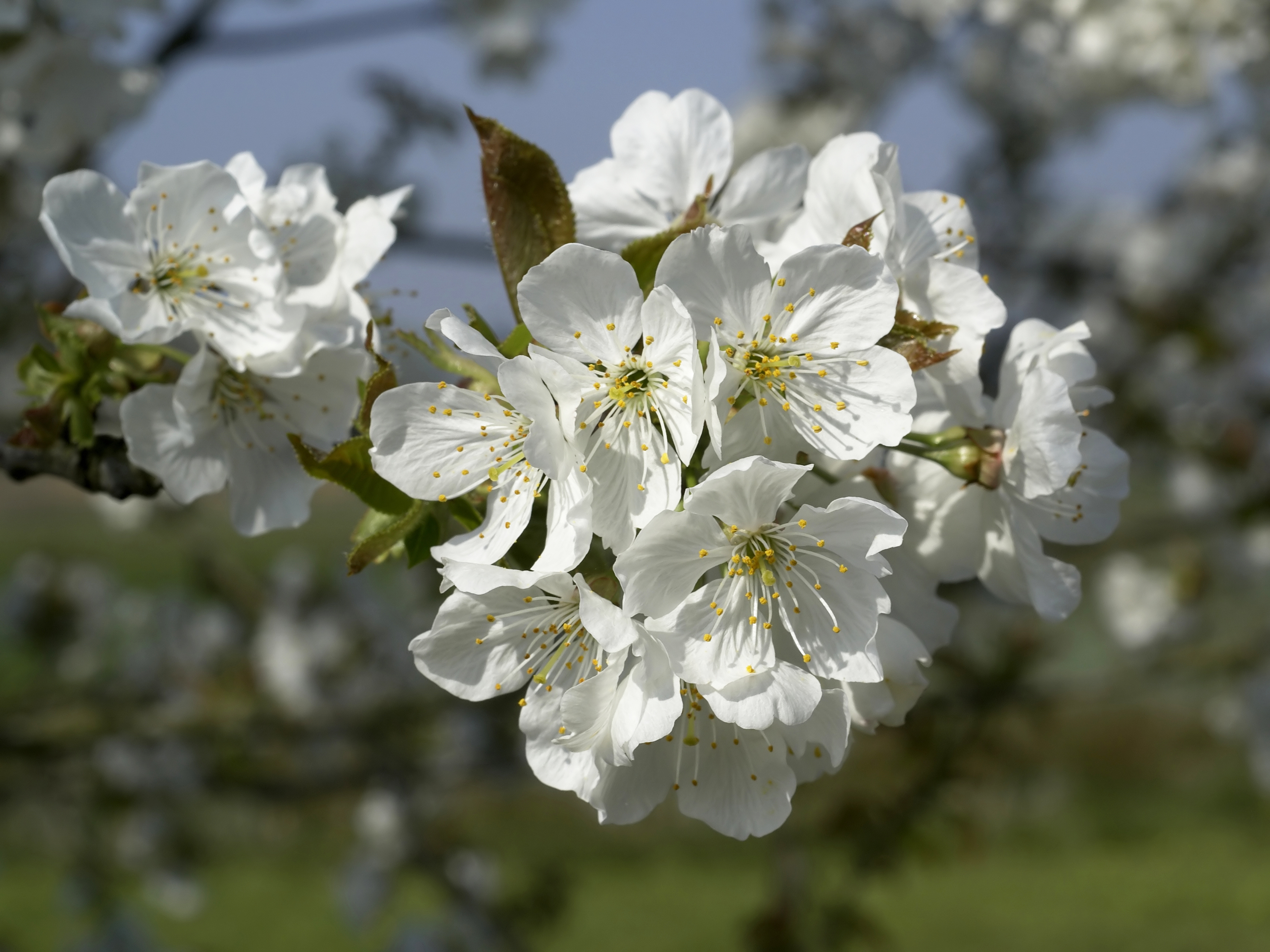 Sour cherry inflorescence at Leiemeersen, Oostkamp, Belgium